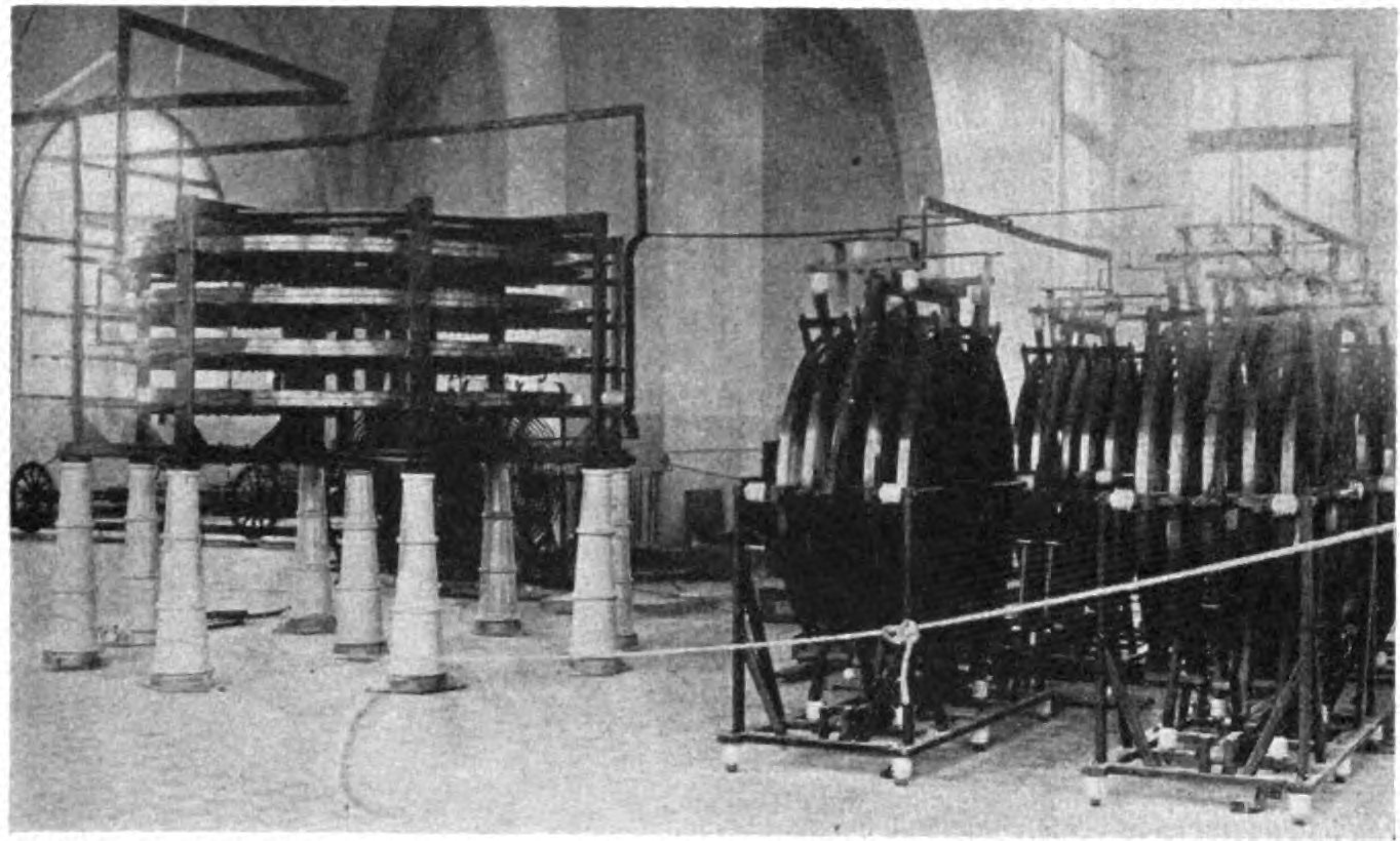 Huge spiral "pancake" inductors in a high power longwave alternator transmitter at "Paris Radio Central" transatlantic wireless telegraphy station, Sainte Assise, France, in 1922. These were called "oscillation transformers". The primary coil was connected to the huge rotating radio frequency alternator, which produced the radio signal. The secondary was connected to the overhead wire aerial system, over a mile long, supported on sixteen 850 foot high towers, which radiated the radio waves. The inductance of the secondary coil resonated with the capacitance of the antenna to form the tank circuit of the transmitter, to control the output frequency. It transmitted on a wavelength of 14,300 meters, or 21 kHz. The French station, which became operational July 4, 1922, had two 500 kW Alexanderson alternator transmitters and two 250 kW alternator transmitters, and was one of the most powerful station in the world at the time. The station's transmitters were designed to handle telegram traffic at a rate of 100 words per minute, and all 6 of them had a combined capacity of 36,000 words per hour. The spiral shape of the coils reduced resistive losses at radio frequency due to proximity effect. The copper conductors are made in the form of wide strips to increase their surface area in order to reduce their resistance at radio frequencies, since radio frequency currents flow along the surface of conductors due to skin effect. Caption: "Large tuning inductances required to operate on long wavelengths"